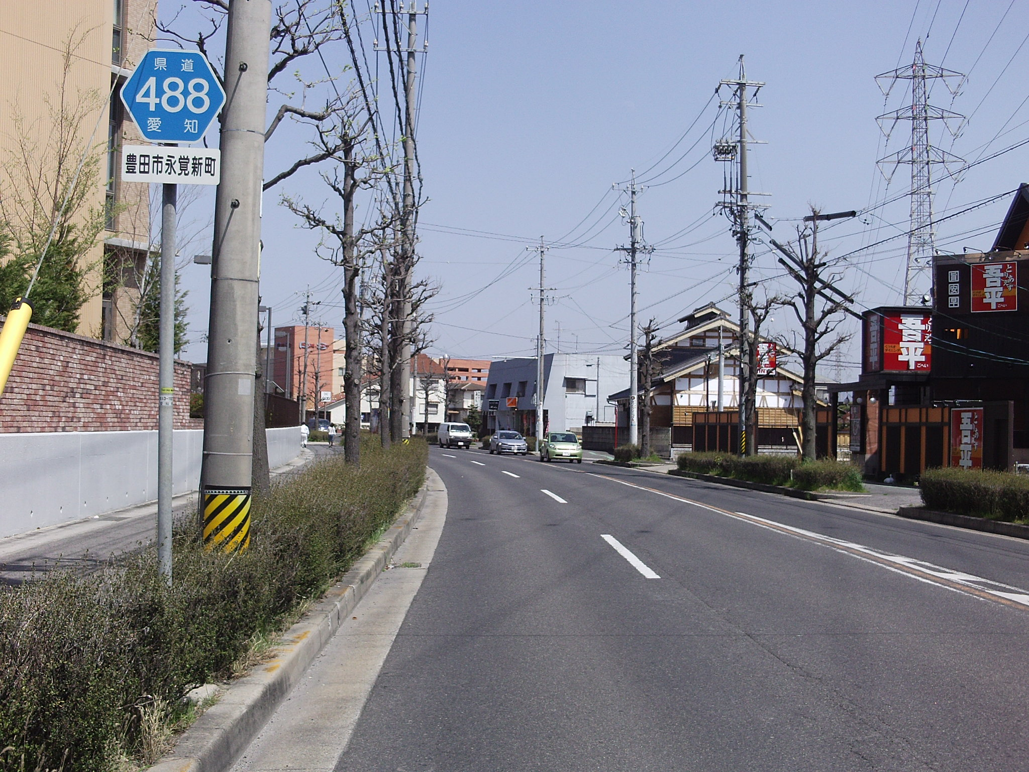 Aichi prefectural road No.488 in Ekakushinmachi, Toyota, Aichi.